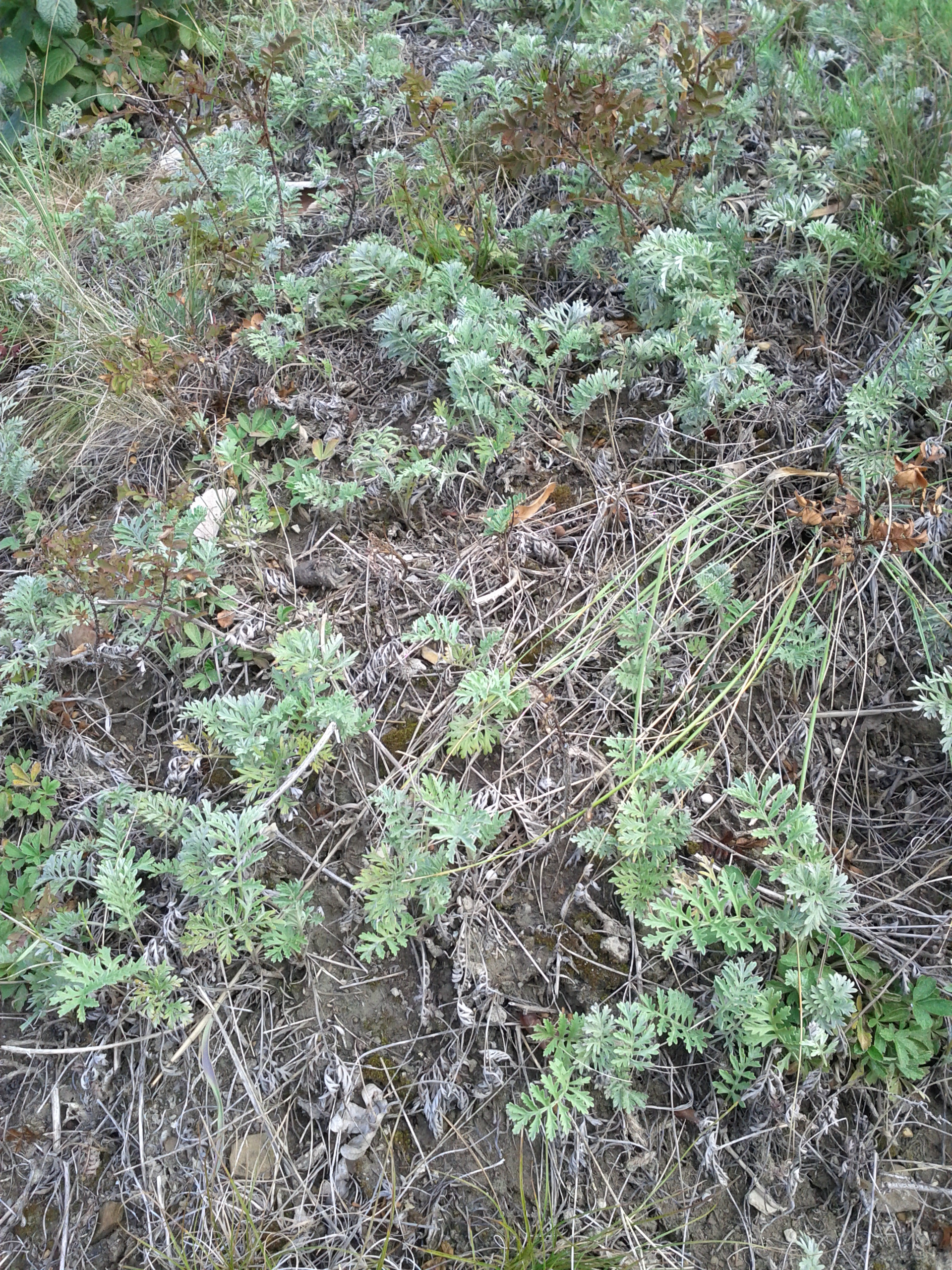 Habitus Taxonym: Artemisia pancicii ss Fischer et al. EfÖLS 2008 ISBN 978-3-85474-187-9 Location: west slope of Bisamberg, district Korneuburg, Lower Austria - ca. 300 m a.s.l. Habitat: rock steppe